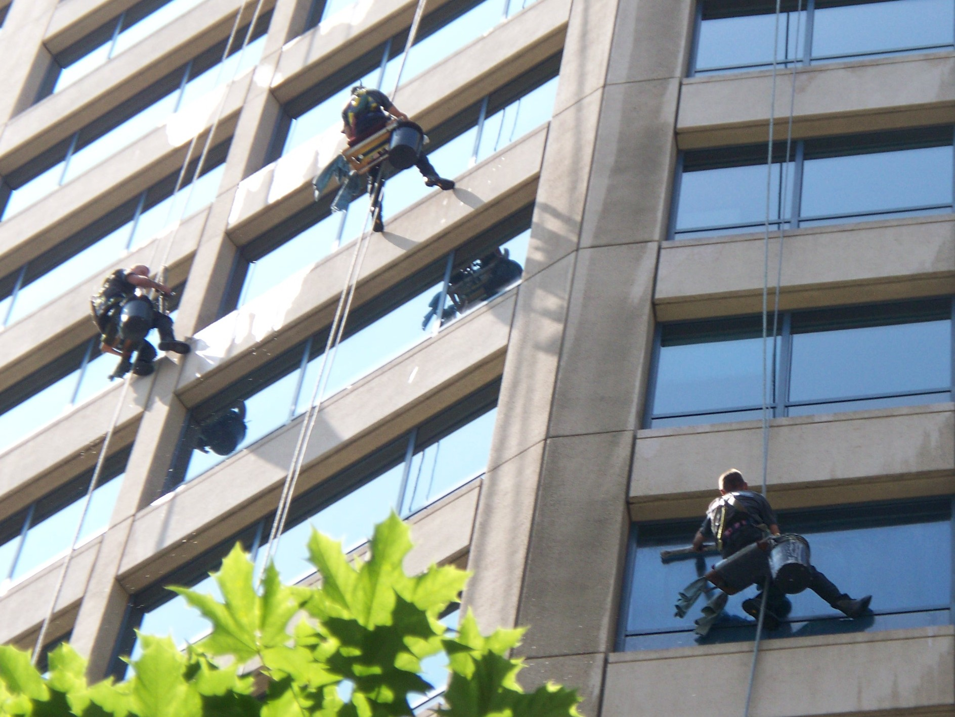 3 window washers cleaning the windows of the Westlake Center Office Tower on July 10, 2009.